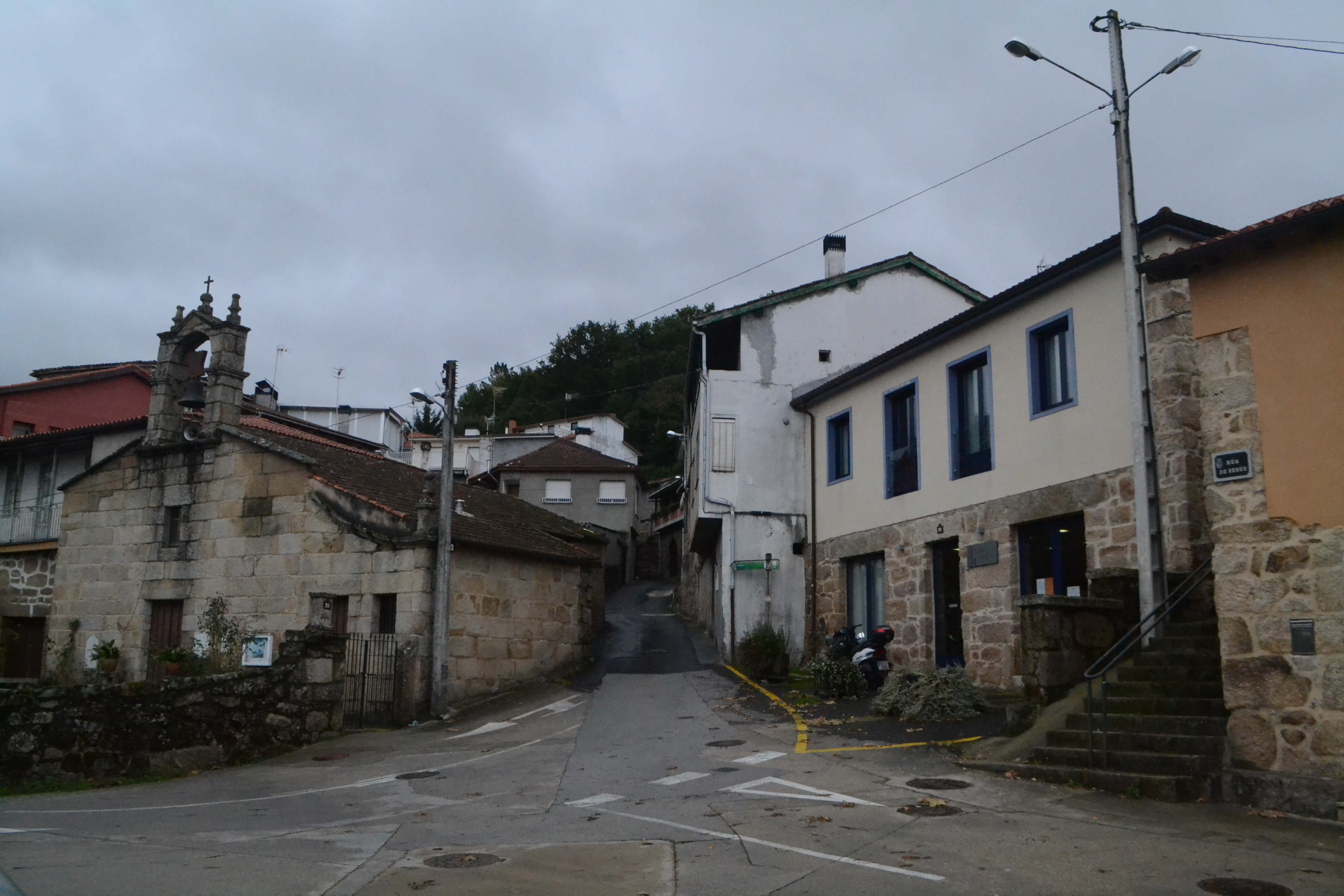 Ceboliño, Ourense